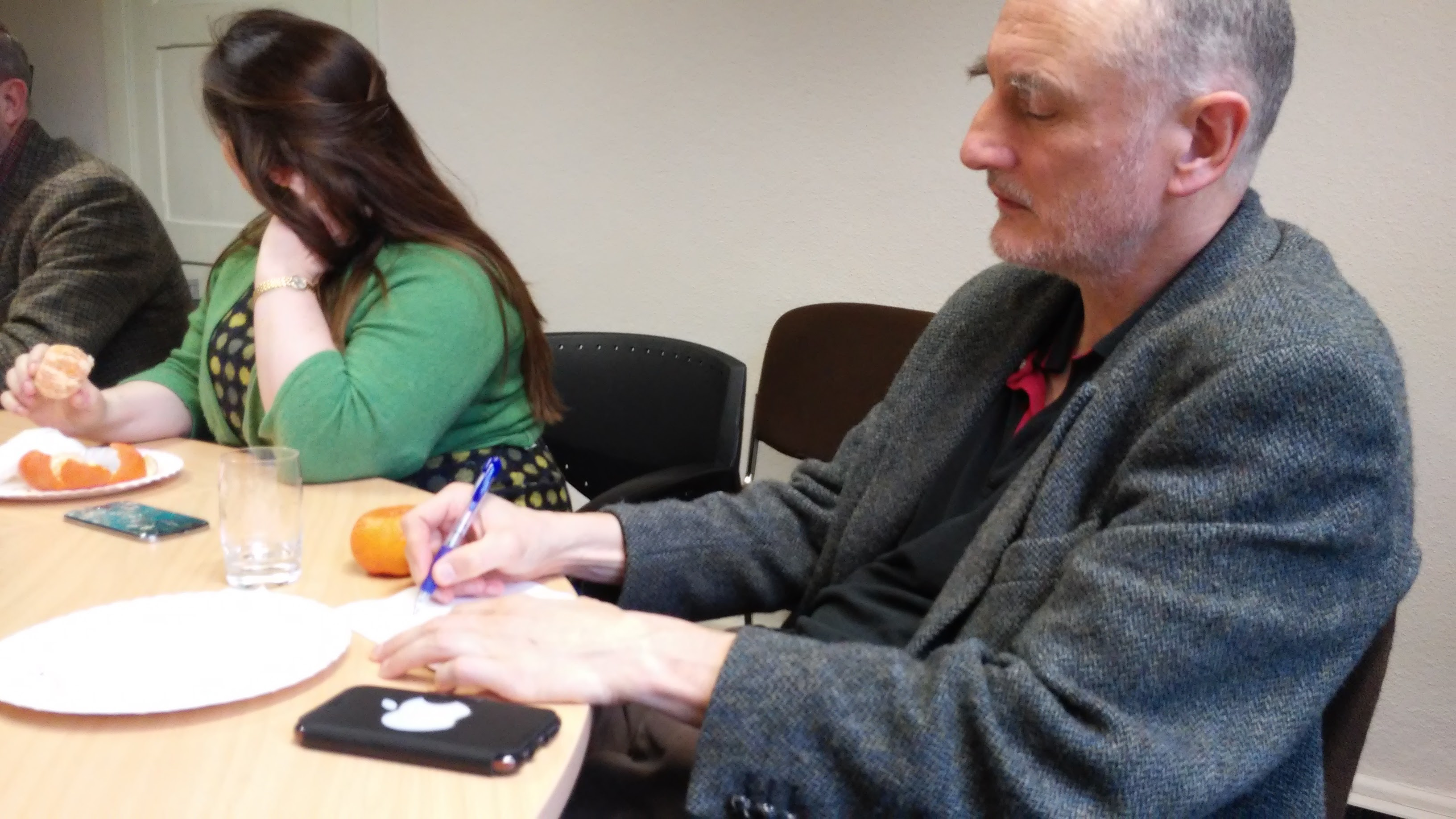 Sebastian Rahtz discussing TEI Simple Processing Model, Berlin March 2015.